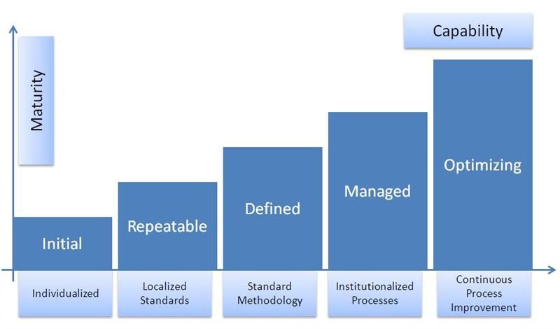 The image describes the general revenue assurance maturity model across 5 phases.